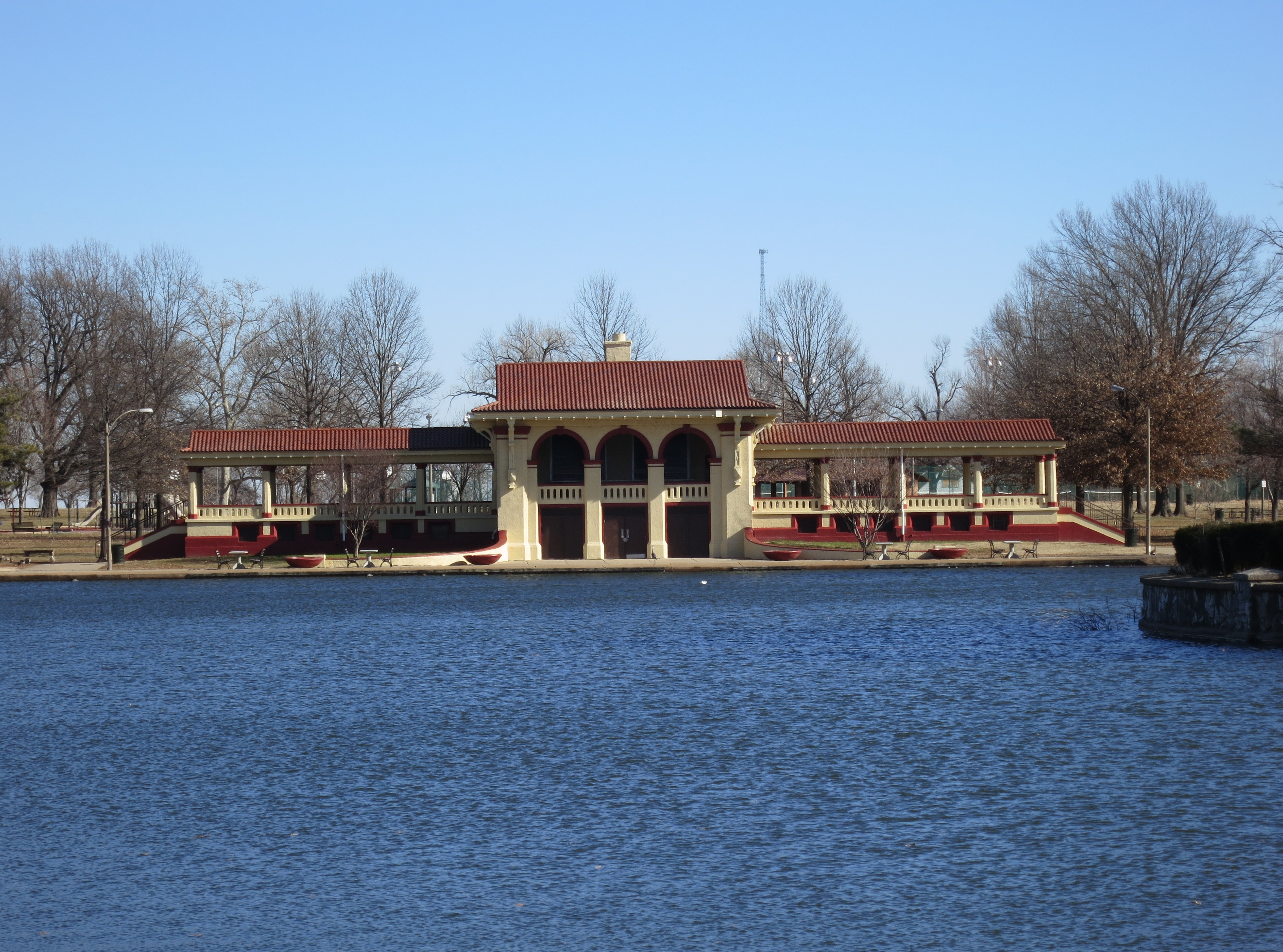 O'Fallon Park Boat House